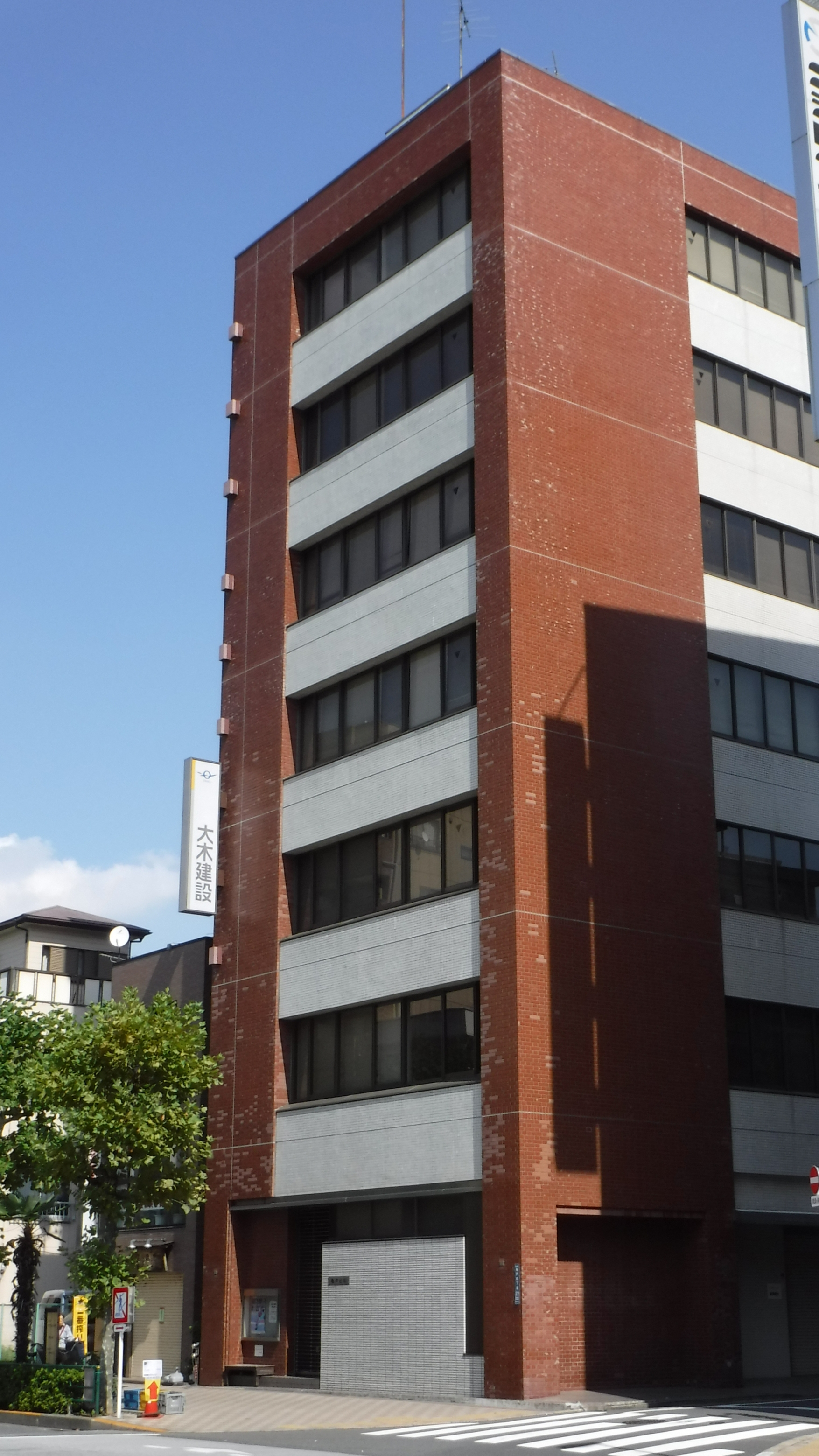 Headquarters office of OHKI CORPORATION, a construction company in Koto-ku, Tokyo, Japan.